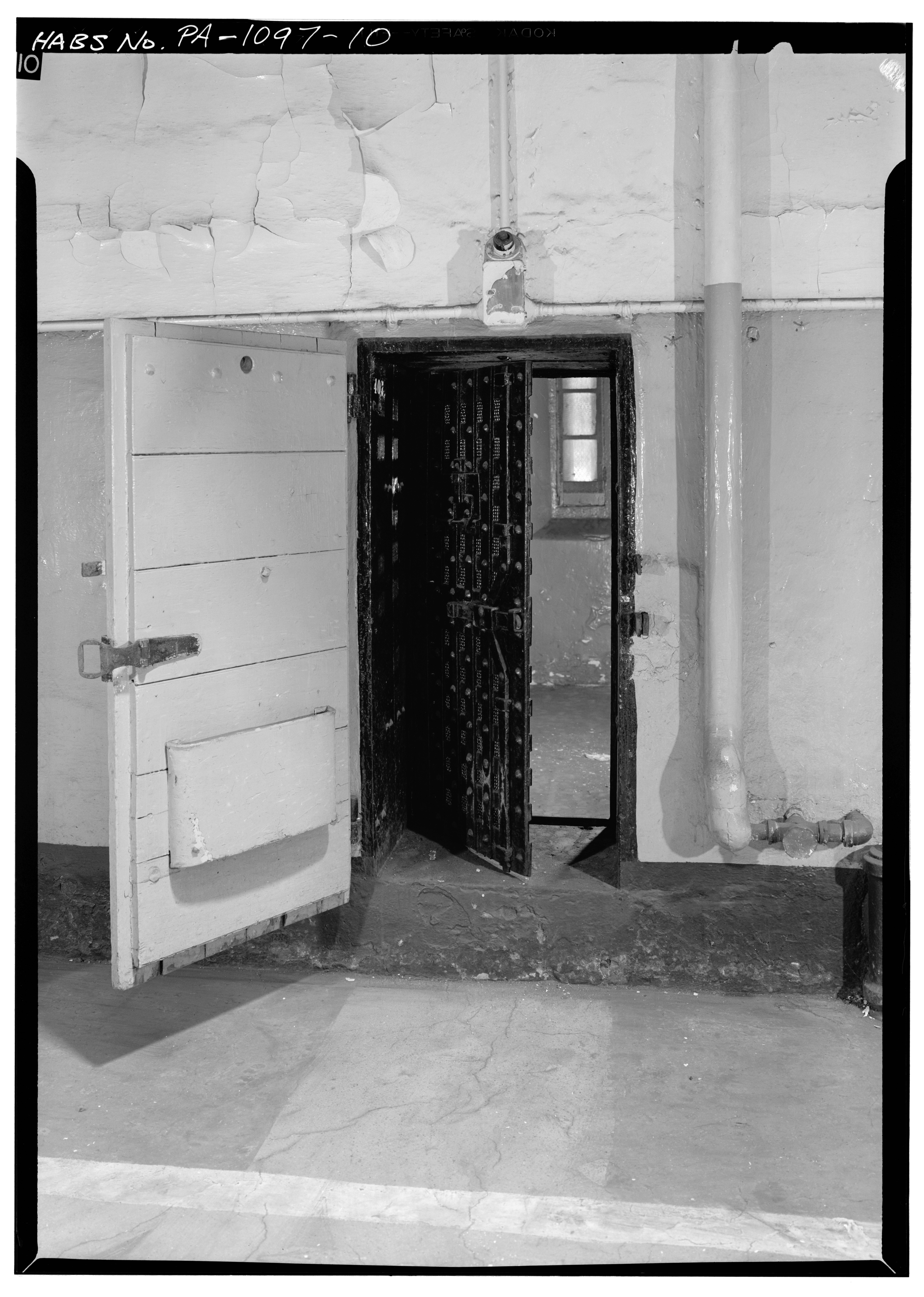 Philadelphia County Prison (Moyamensing Prison) Philadelphia PA. Detail of Cell Door with Open Metal Lattice Door. From LOC Historic American Buildings Survey (HABS) PA-1097, Control Number: pa1056. Jack E. Boucher, photographer (July 1965).